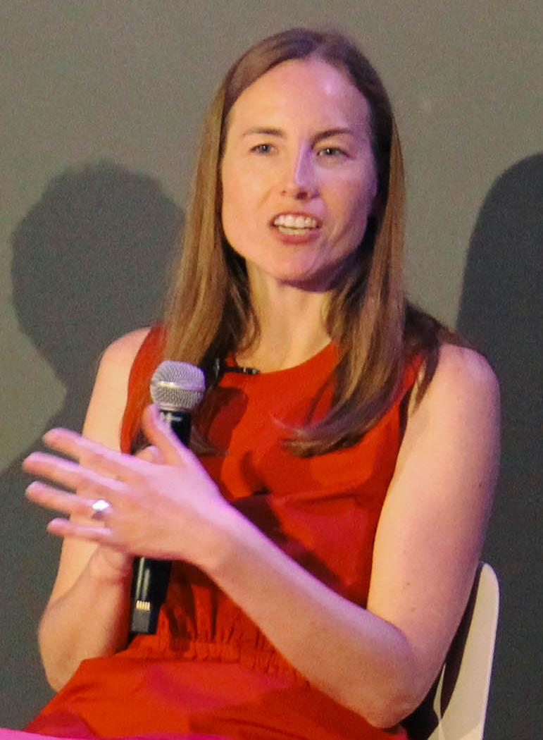 Anu Partanen at an event by New America in 2016